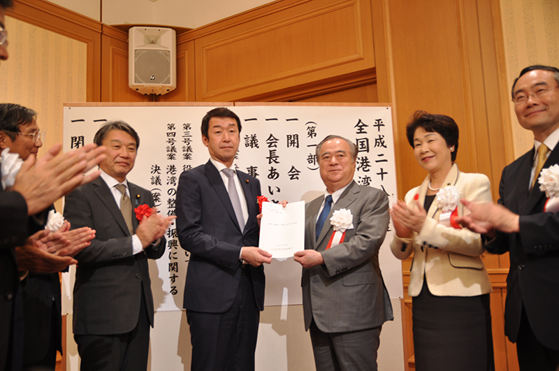 Ryōsei Tanaka, Senior Vice-Minister of Land, Infrastructure, Transport and Tourism, and Yasutada Ōno, Parliamentary Secretary of Land, Infrastructure, Transport and Tourism, met Masaru Hashimoto, President of the National Governors' Association for Ports and Harbours at the Hotel Le Port Kojimachi in Chiyoda Ward, Tōkyō Metropolis on October 11, 2016.